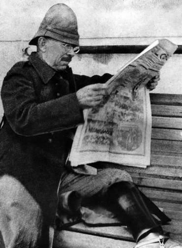 General Klinger on board in the ship "Pedro I" in traveling to exile, in Portugal, after Revolution of 1932.